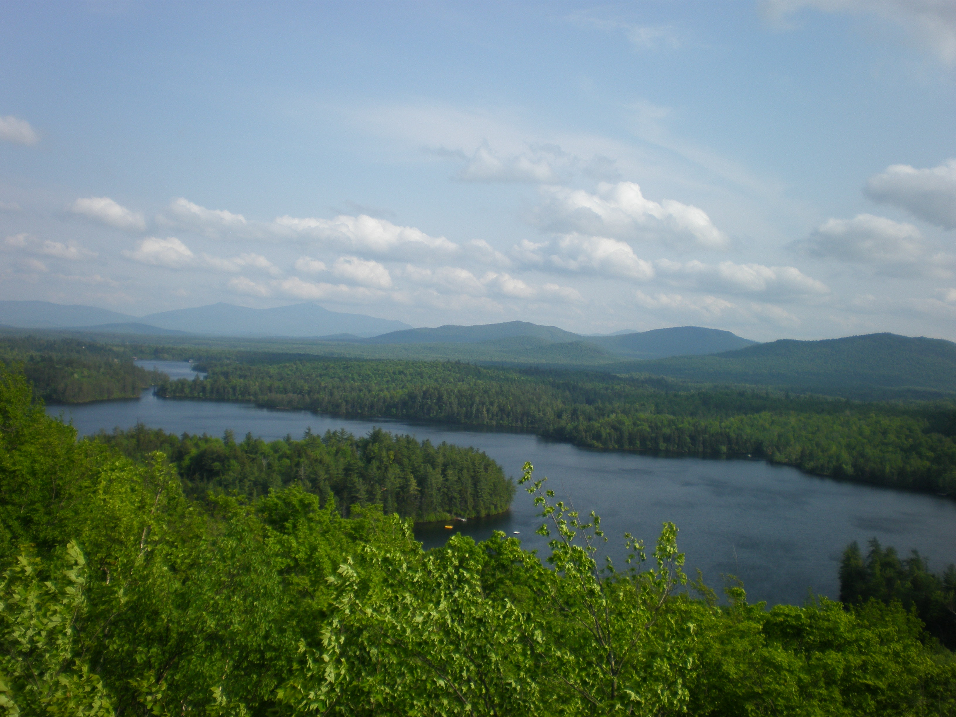 Taken from Crusher Mountain